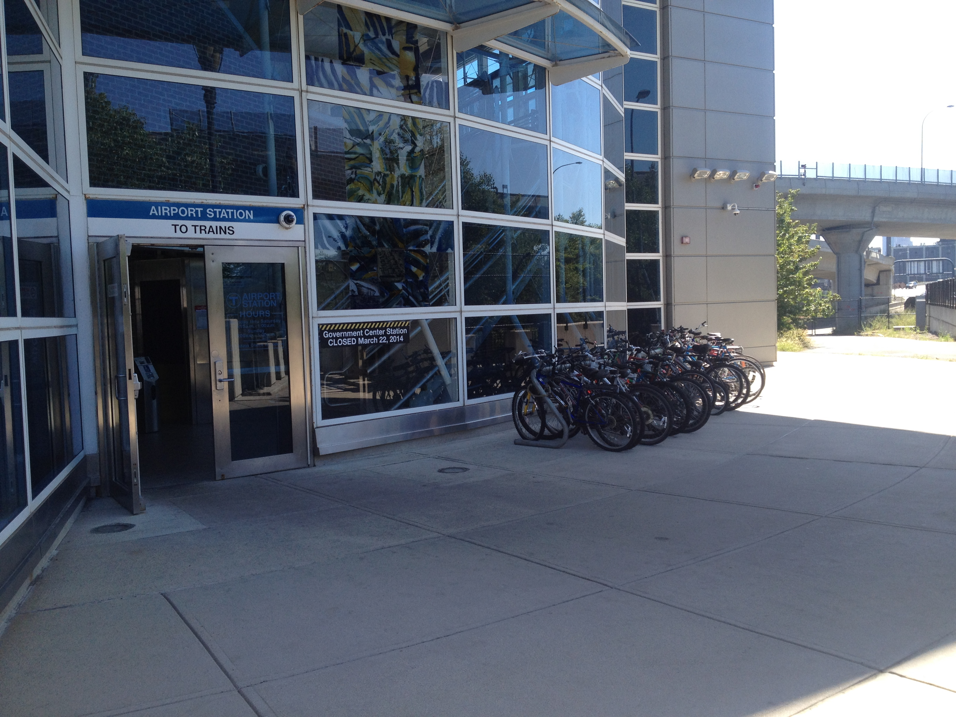 Bremen Street entrence to MBTA Airport Station at Boston's Logan Airport, with bicycle parking.